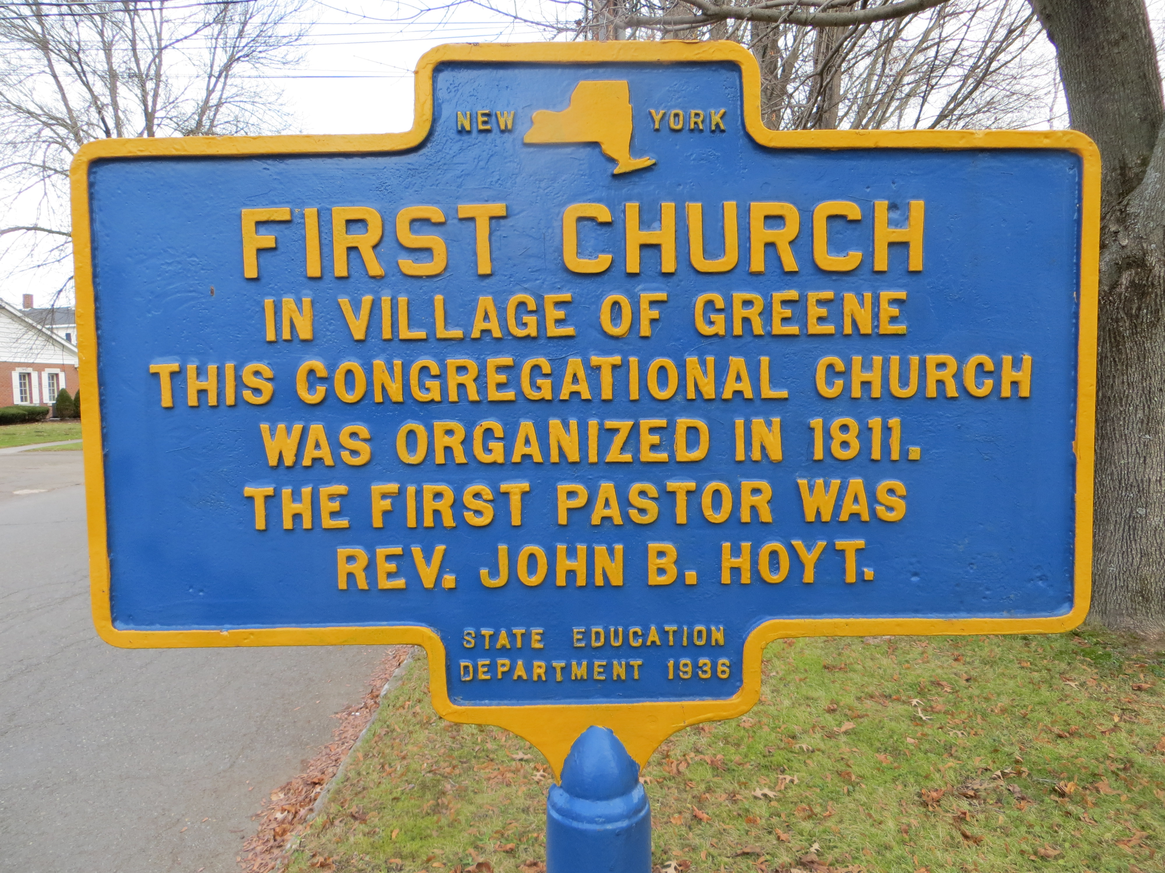 Historic marker of the first church in the village of Greene. The church was organized as congregational in 1811. Rev. John B. Hoyt was the first pastor.